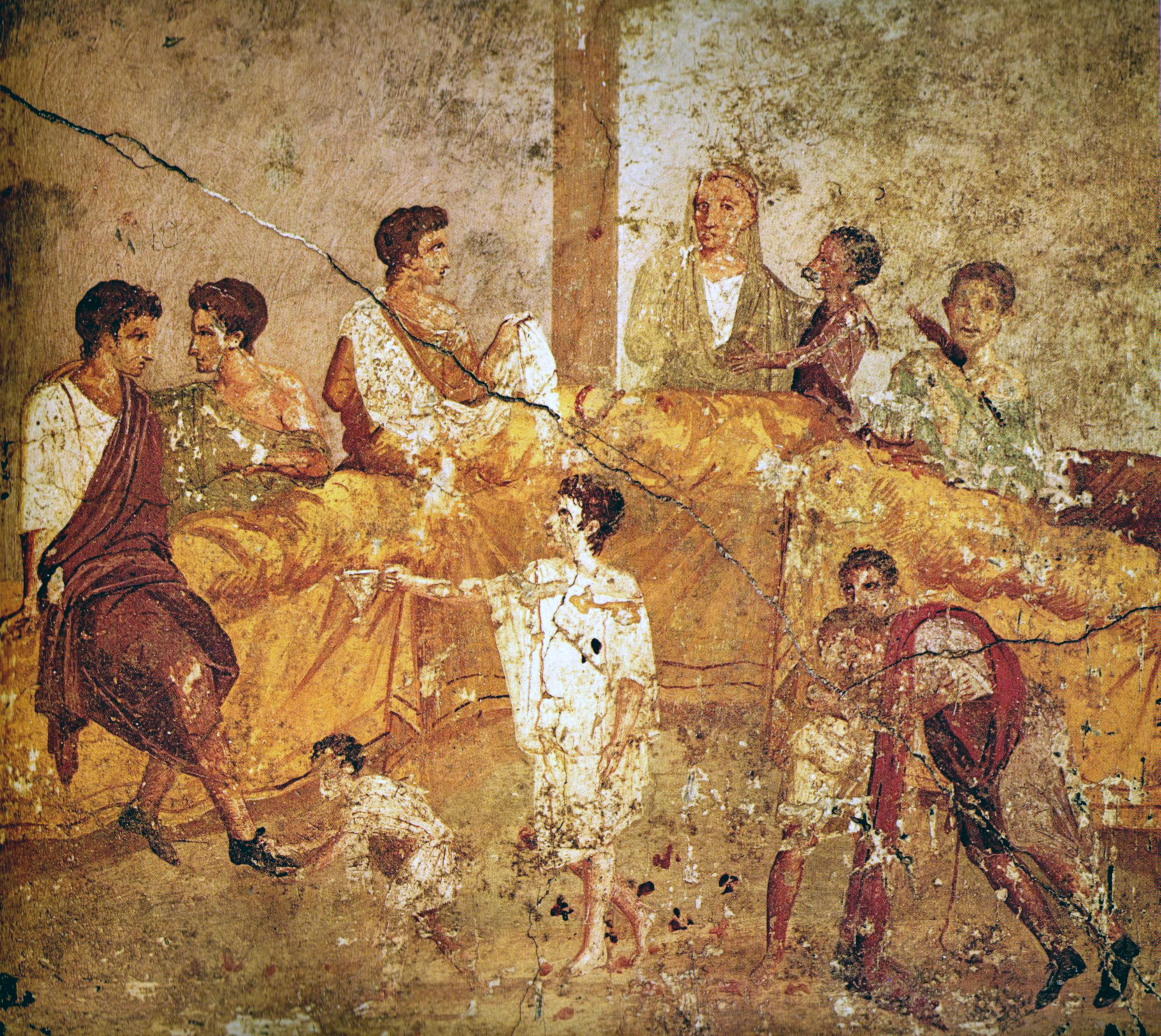 Painting from Pompeii, now in the Museo Archeologico Nazionale (Naples), showing a banquet or family ceremony